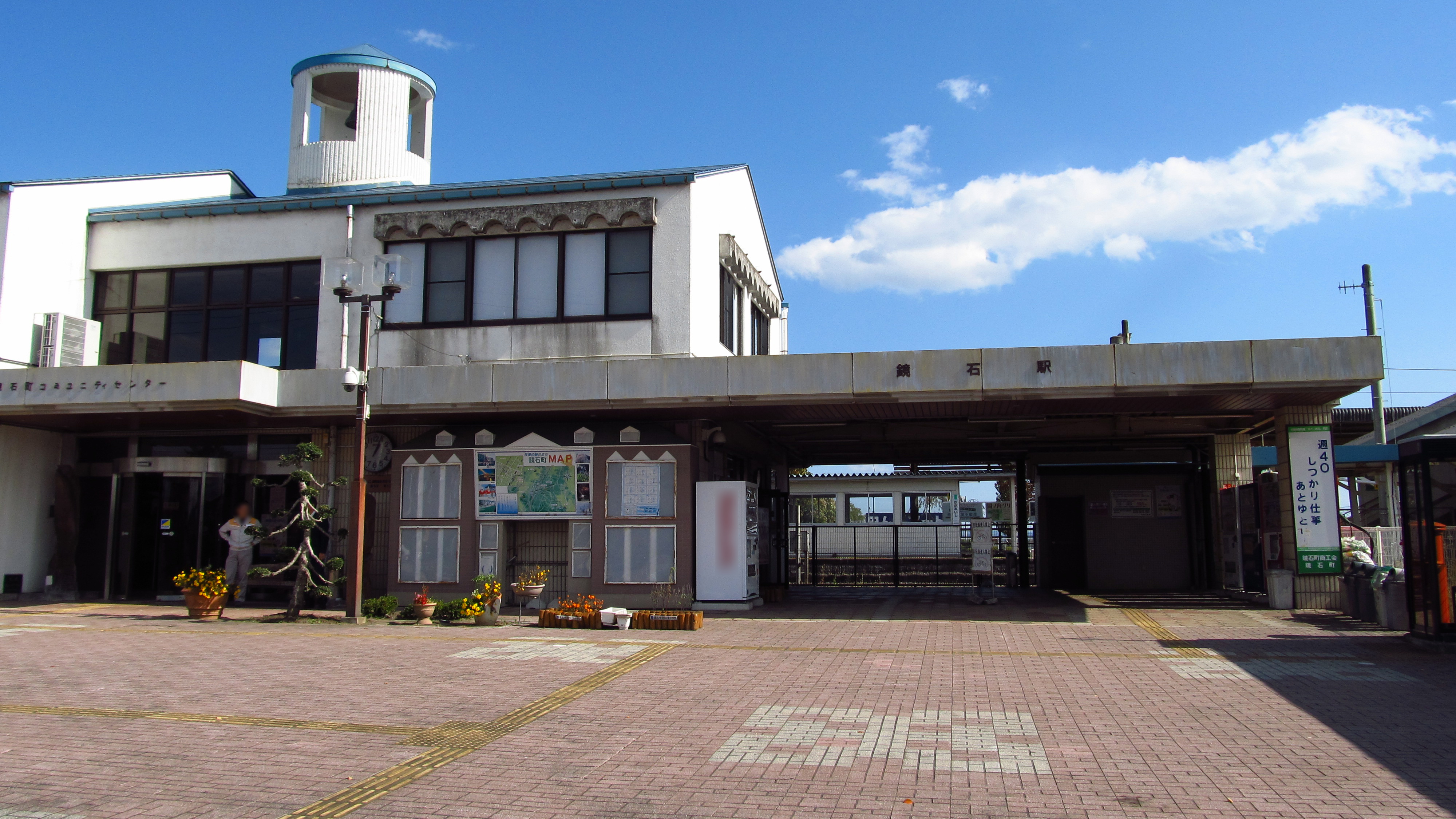 The building of Kagamiishi Station on the Tōhoku Main Line in Kagamiishi town, Fukushima prefecture, Japan